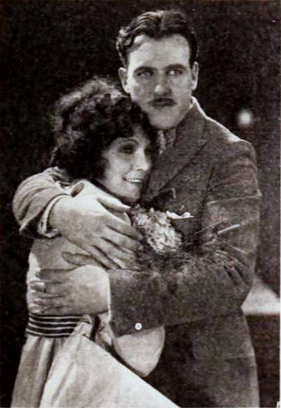 Still from the American film The Invisible Divorce (1920) with Leatrice Joy and Walter McGrail, on page 75 of the March 20, 1920 Exhibitors Herald.